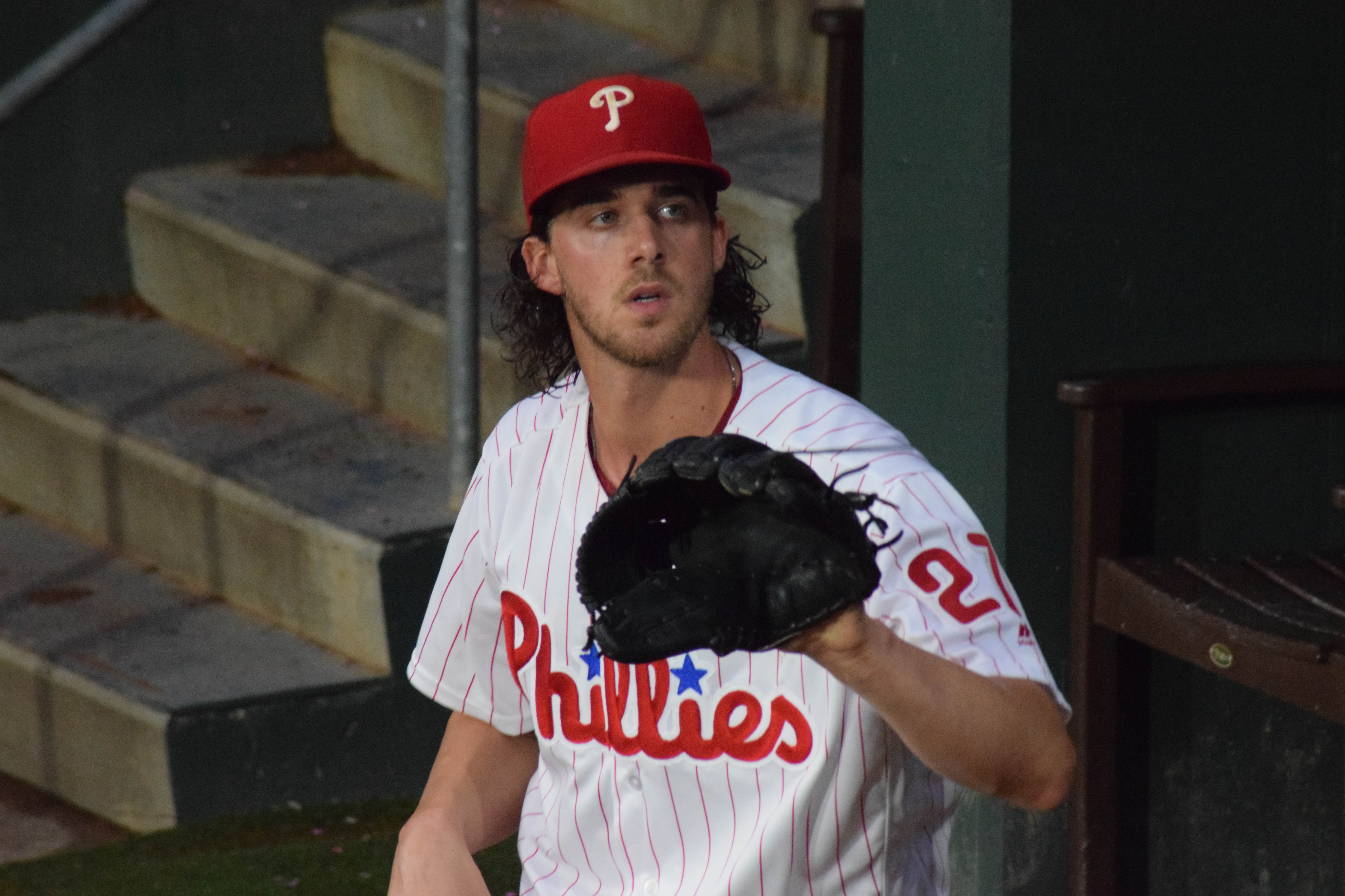 Phillies All-Star pitcher Aaron Nola